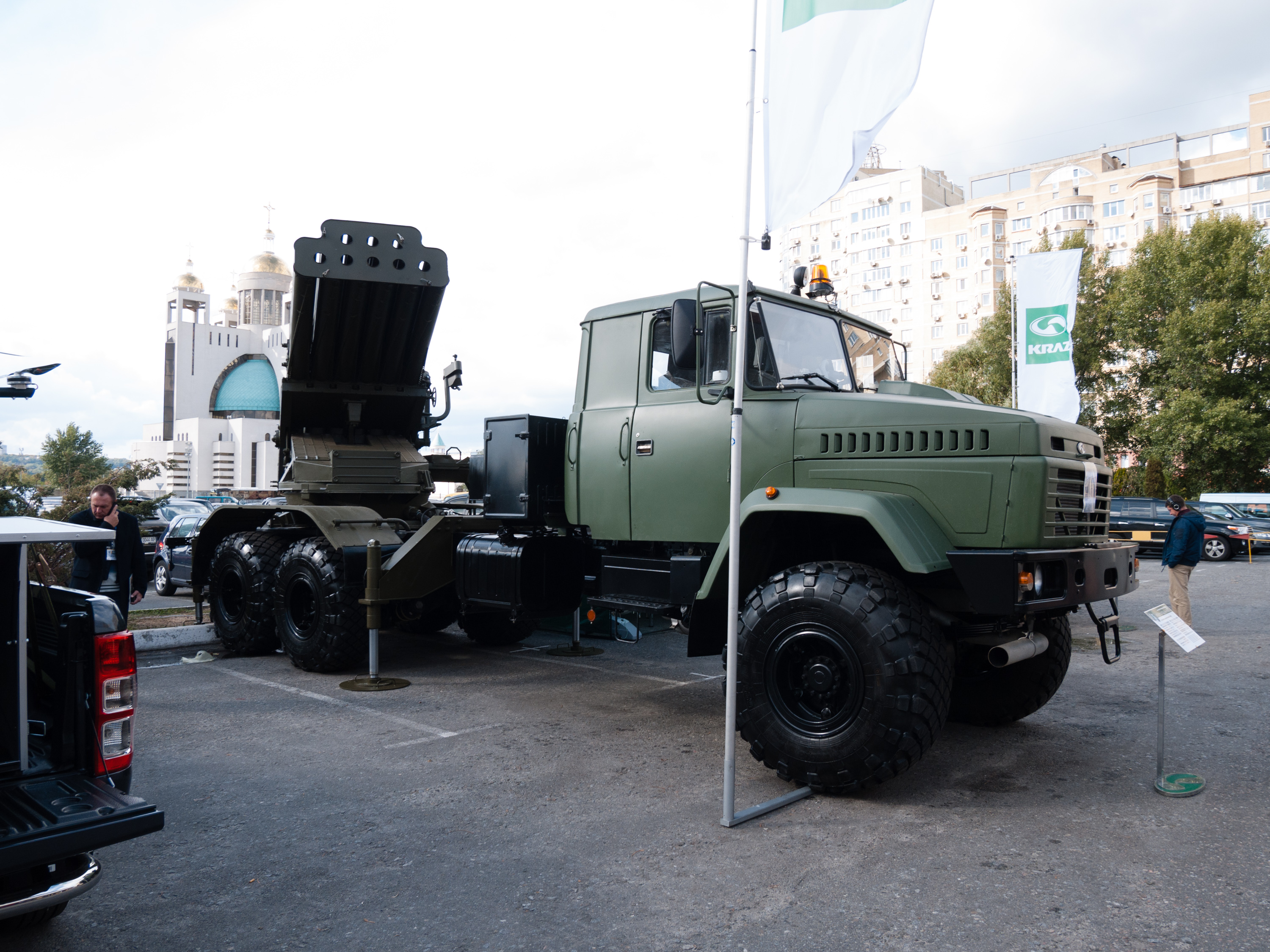 Uragan MLRS on KrAZ-63221 chassis (Ukraine)